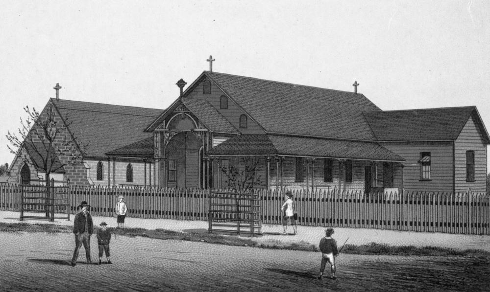 St. Mary's Church and School, Warwick, ca. 1886 Caption under photograph reads: St. Mary's Church and School. (School is centre, church is left). St. Mary's School was run by the Sisters of Mercy. (Description supplied with photograph)